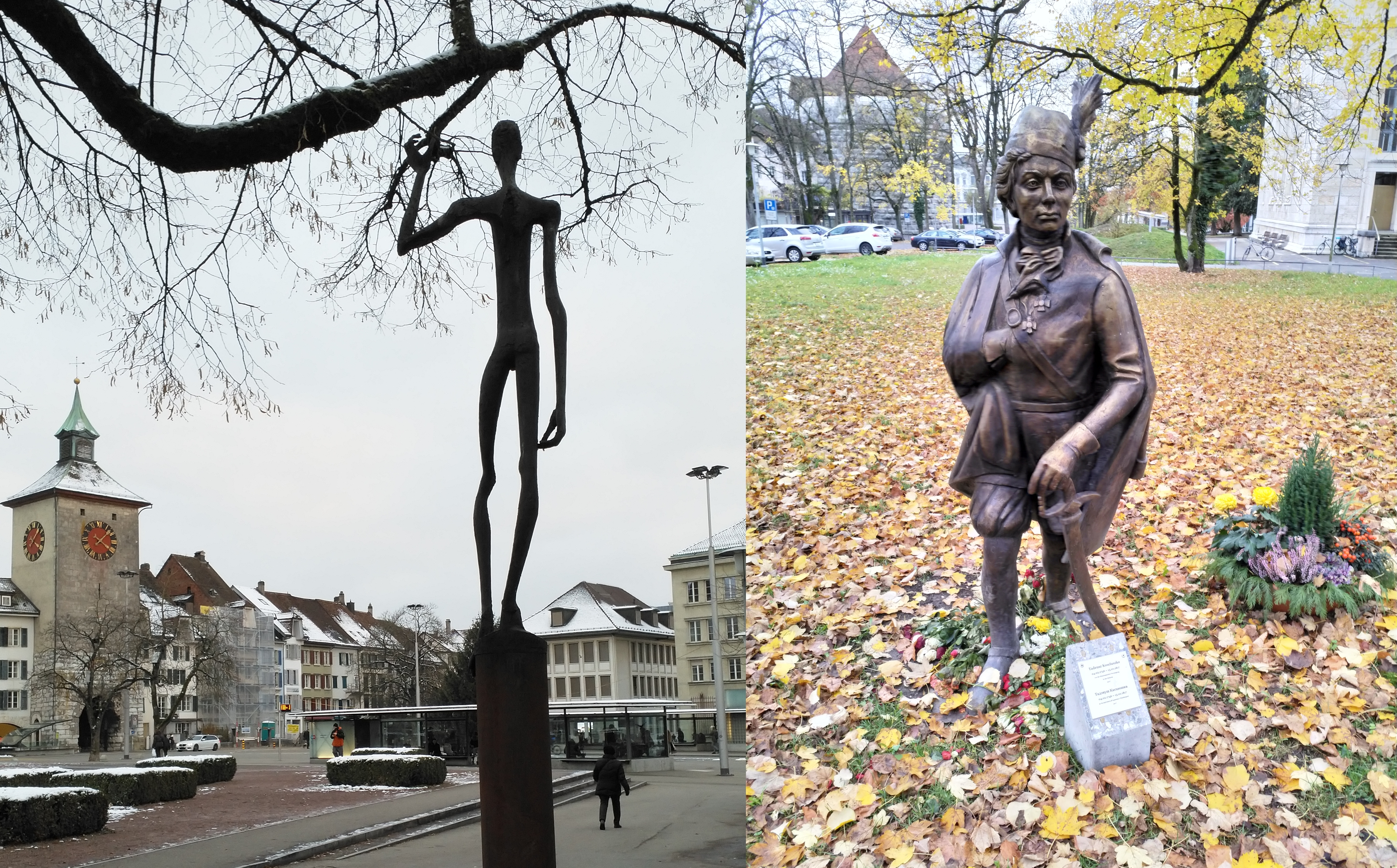 Both Kosciuszko memorials in Solothurn: Sculpture by Schang Hutter (1967) and statue donated by Belarusians in Switzerland (2017).